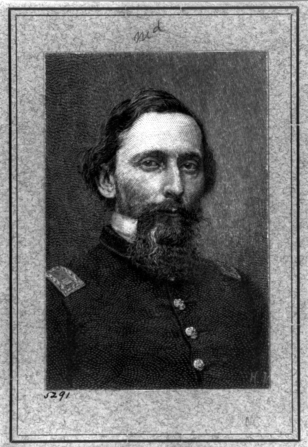 Charles Sidney Winder. Library of Congress description: "Charles Sidney Winder, 1829-1862, head and shoulders, facing right, in uniform. Brig. Gen. from Md."